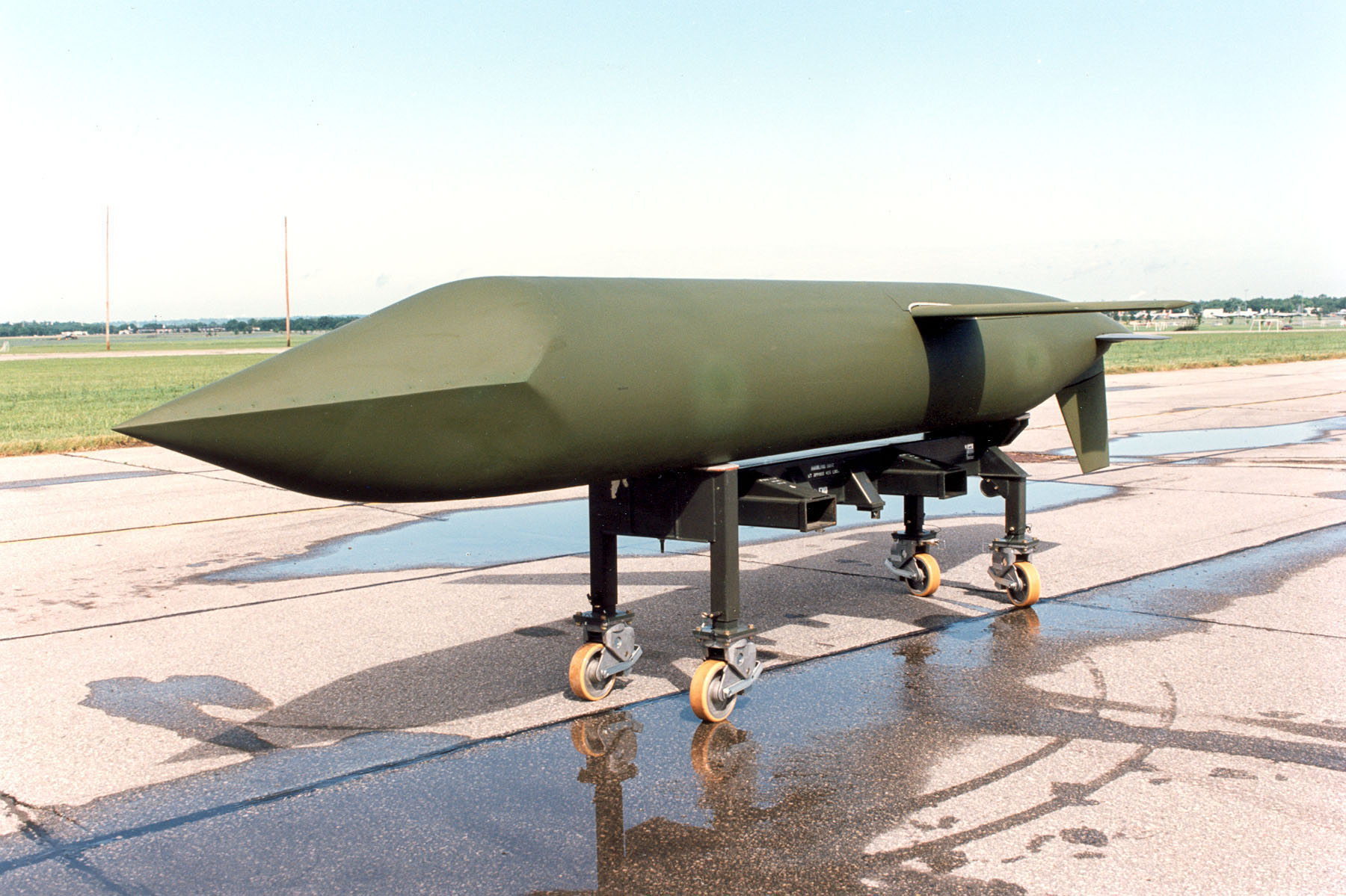 An AGM-129A cruise missile at the National Museum of the United States Air Force